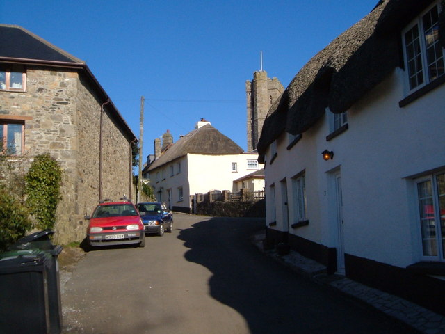 Ilsington. View NNW up the village street past thatched cottages to the church.